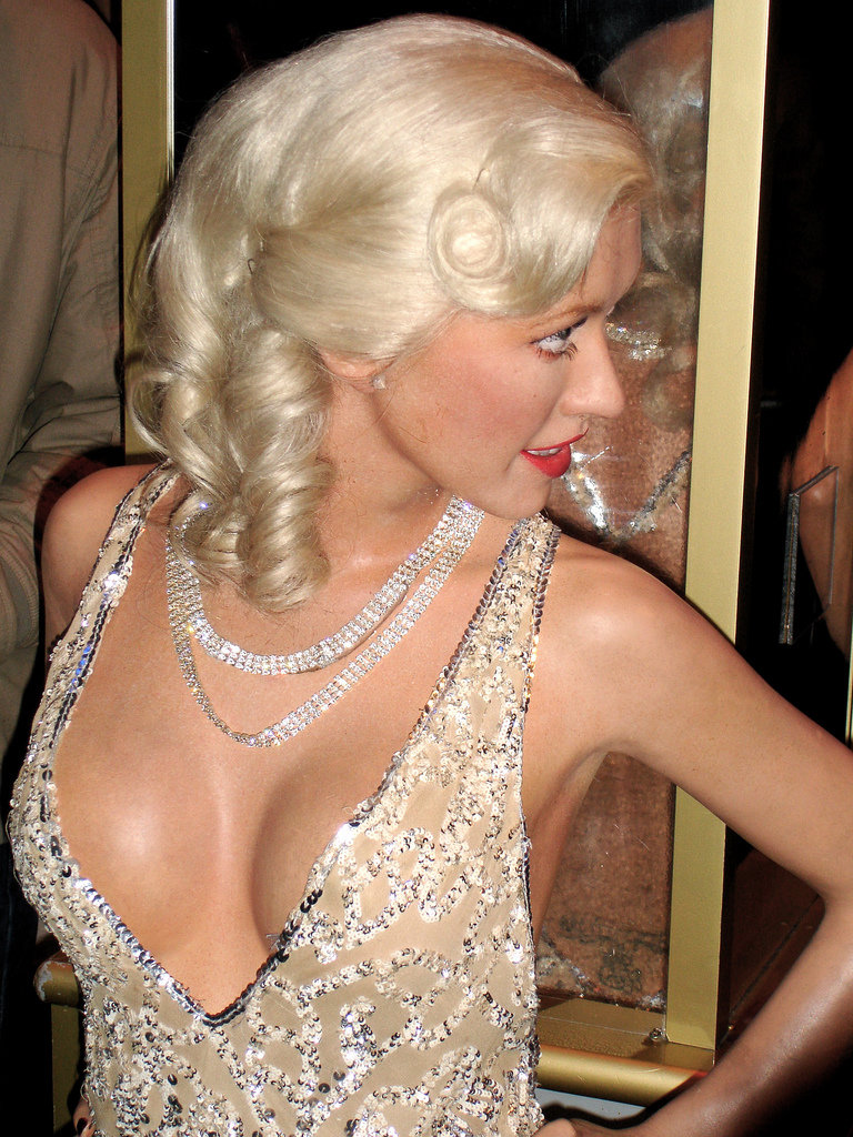 Waxwork of Christina Aguilera at Madame Tussauds in London.